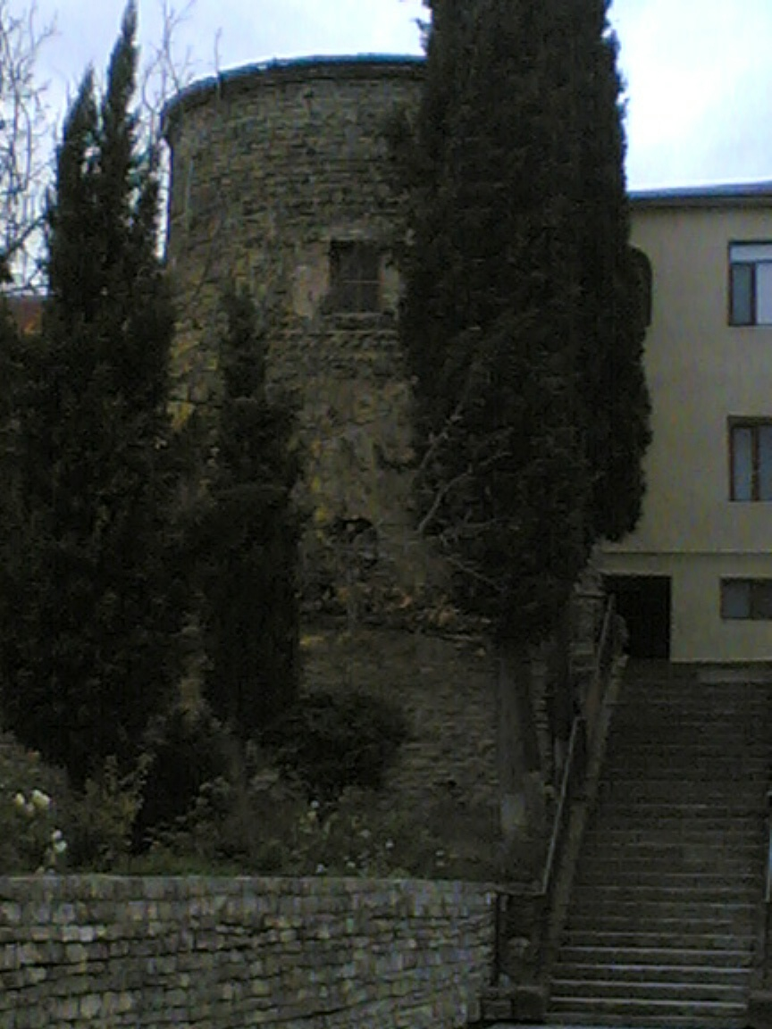 Monk Gabrieli Tower, Mtskheta, Georgia